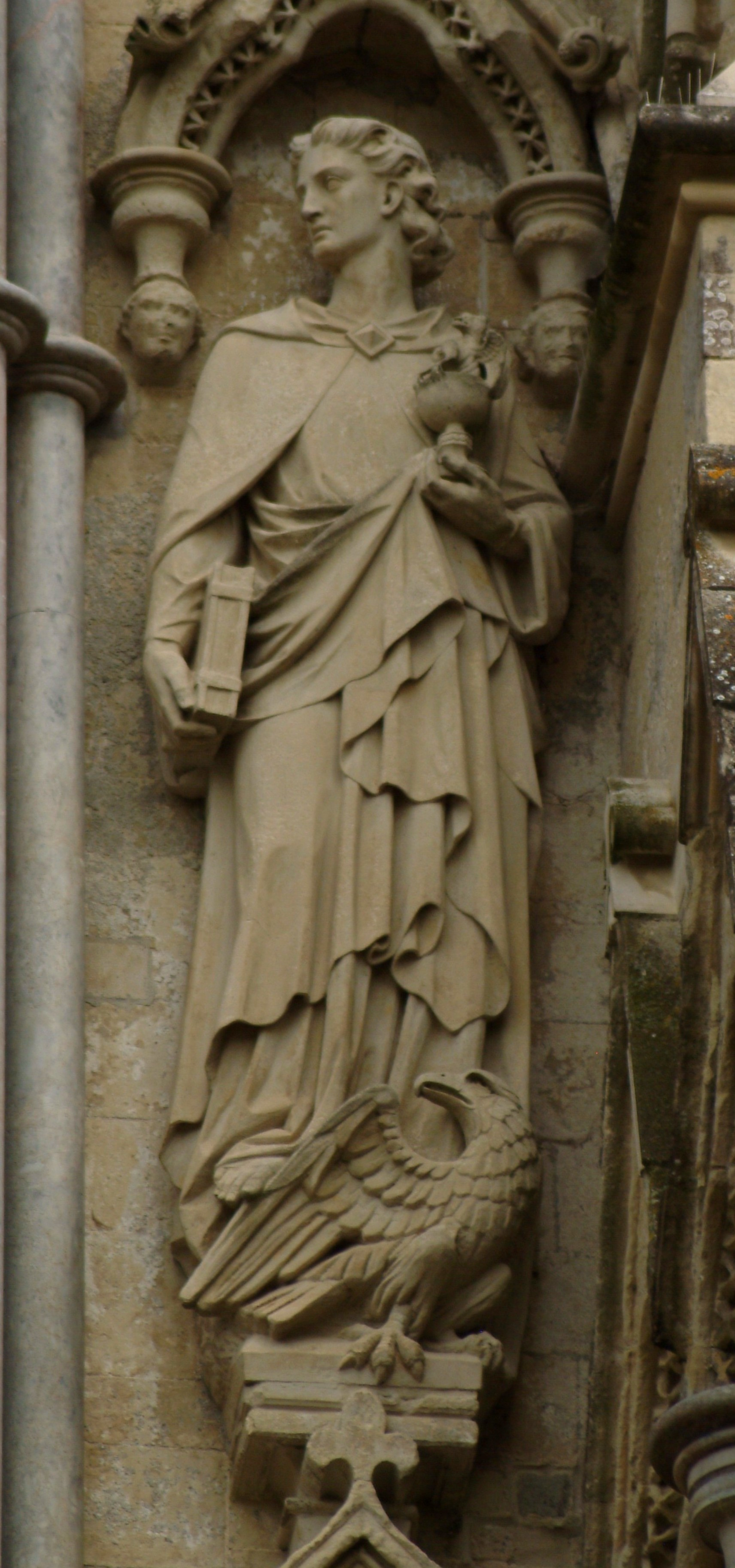 Newer statue of St John the Evangelist on the West Front of Salisbury Cathedral, UK.